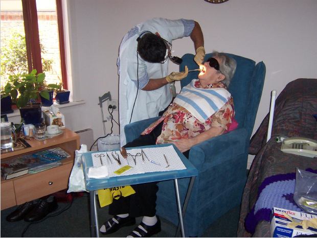 Geriatric patient receiving dental care